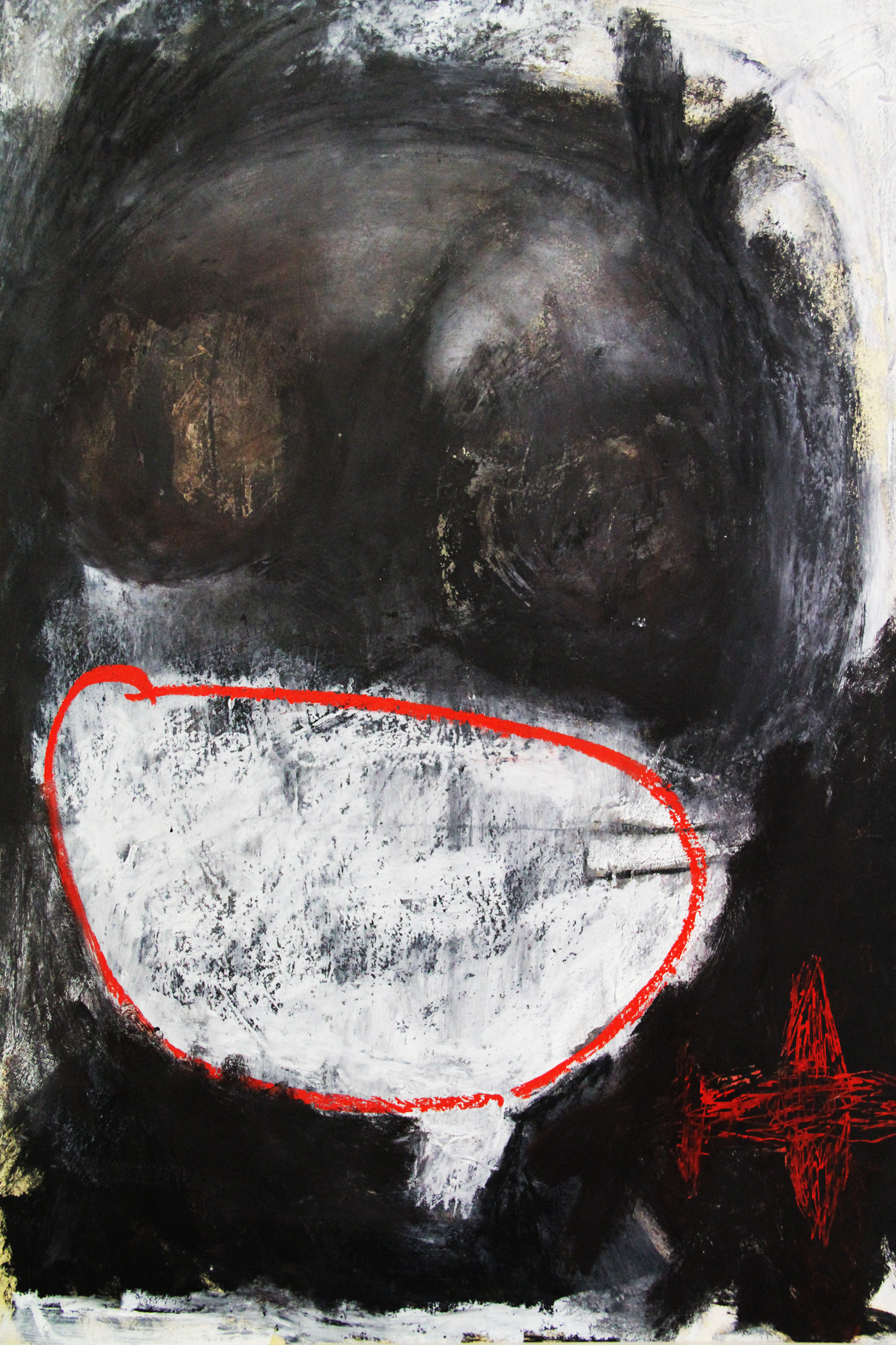 Nina Staehli Berlin, Luzern, Kansas City